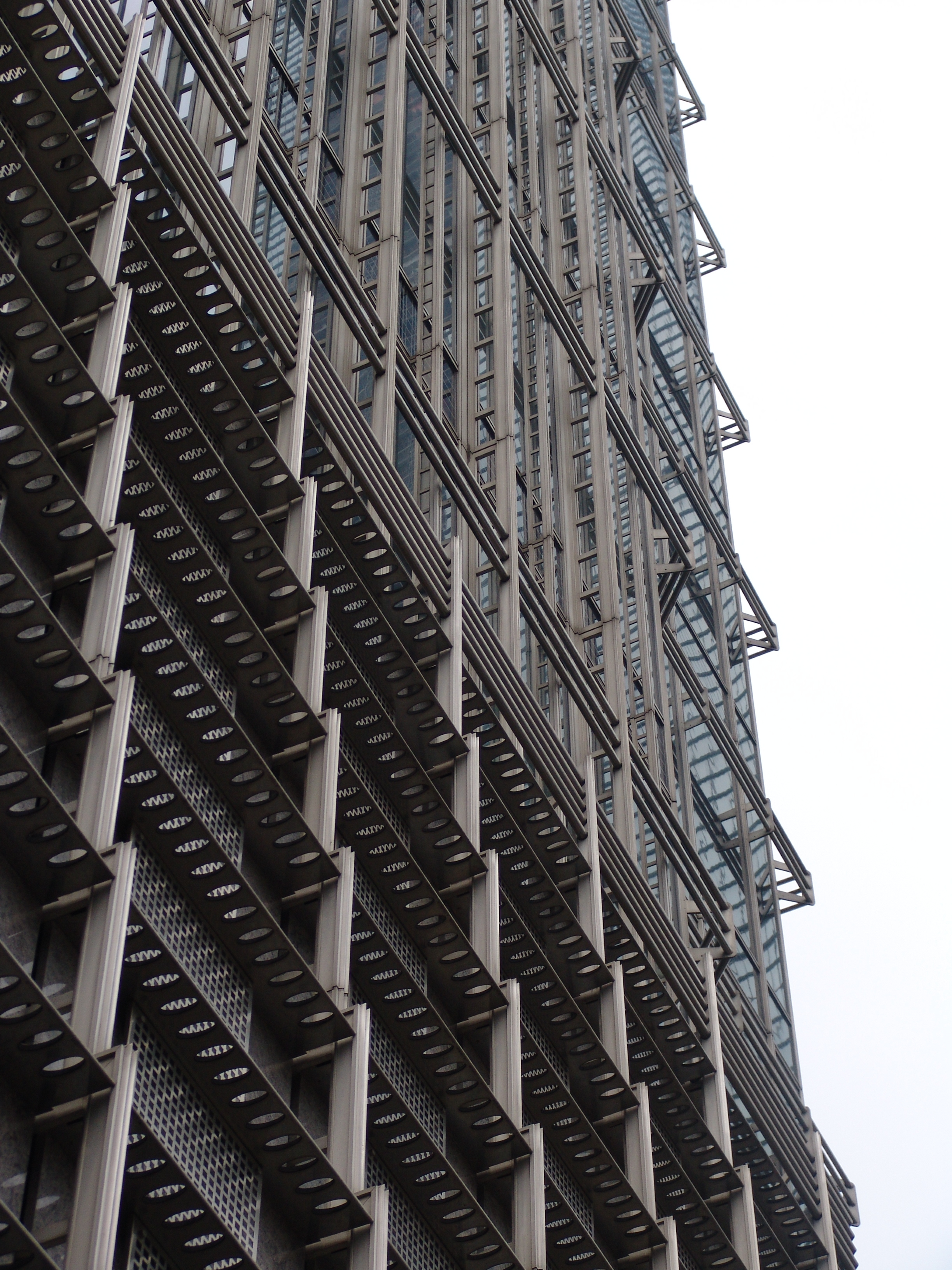 Jin Mao Building, exterior detail